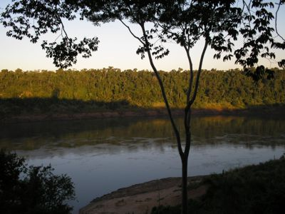 The Parana River seen from the house of Moses Bertoni